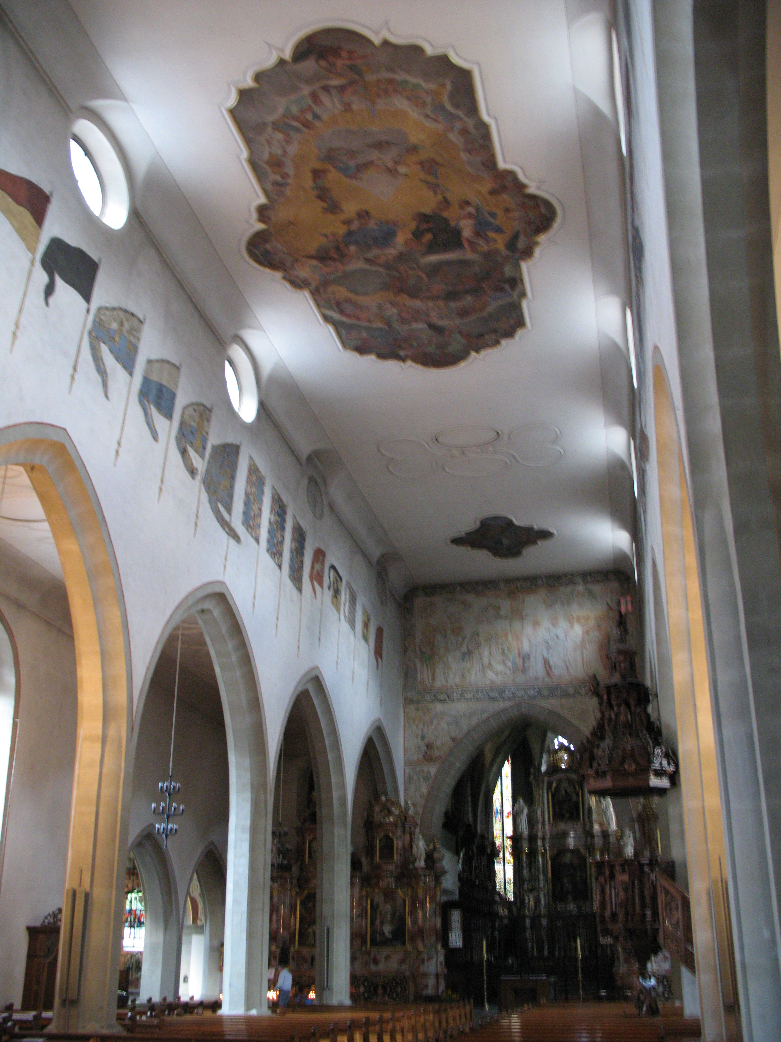 Franciscan Church, Luzern, Switzerland